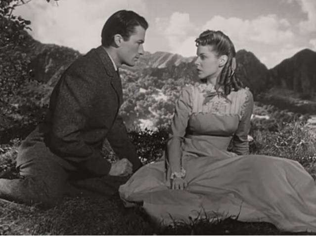 Gregory Peck & Jane Ball in The Keys of the Kingdom - trailer (cropped screenshot)